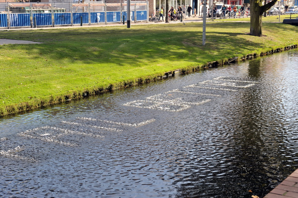 By Job Koelewijn (Amsterdam 1962) Deze tekst wordt van onderuit op het wateroppervlak geprojecteerd. Ik vermoed met buizen met gaatjes waardoor het water naar boven borrelt. Op de foto hierboven zie je de laatste 2 woorden (Fail Better).